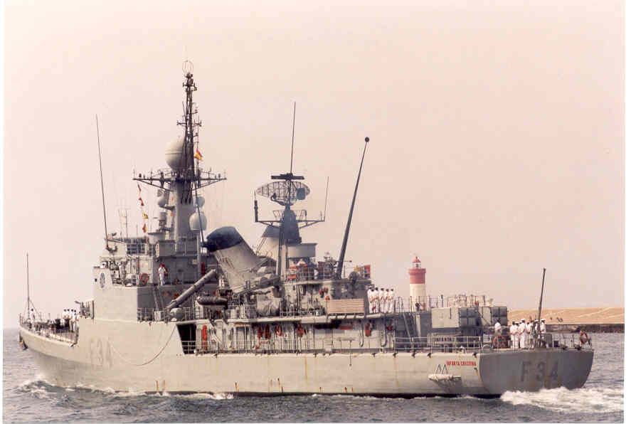 Ship of the Spanish Navy Infanta Cristina, commissioned in 1980 as corvette with pennant F-34; in 2000 she was reclassified as oceanic patrol ship, pennant P-77